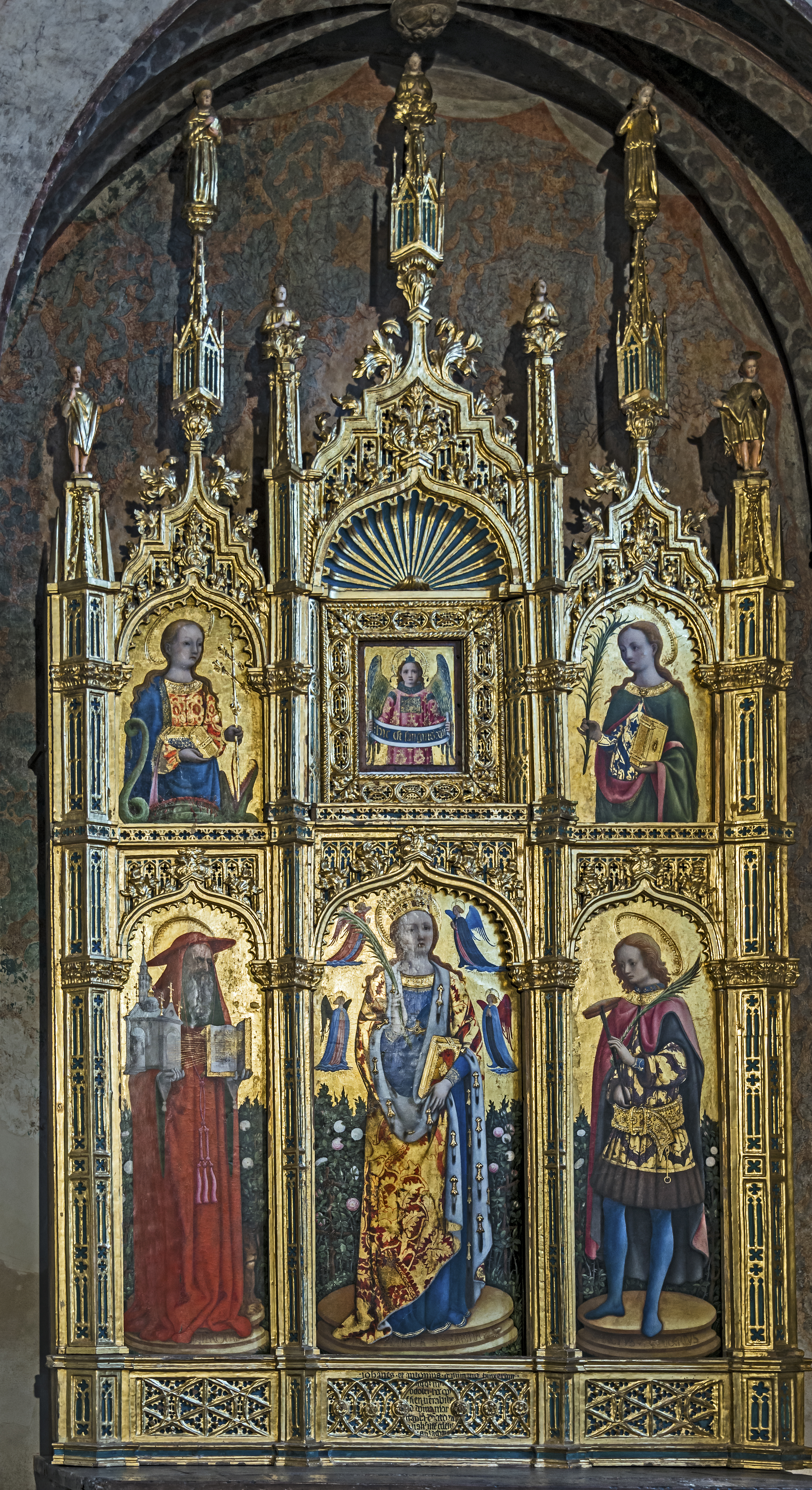 San Zaccaria in Venice - Polyptych of Saint Sabina. Inlaid wood marquetry and sculpted by Ludovico da Forli in 1443. The paintings by Antonio Vivarini - Giovanni d'Alemagna.